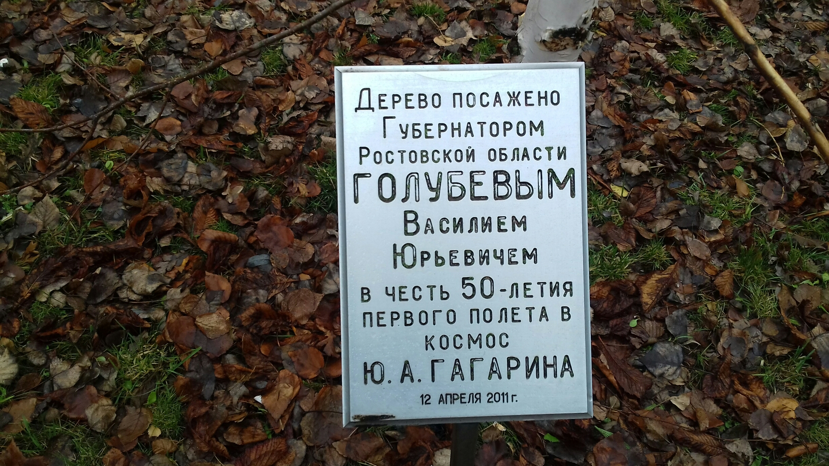 A memorial tree planted by governor of Rostov Oblast Vasily Golibev at yard of Rostov Museum of Cosmonautics. Rostov-on-Don, Russia.